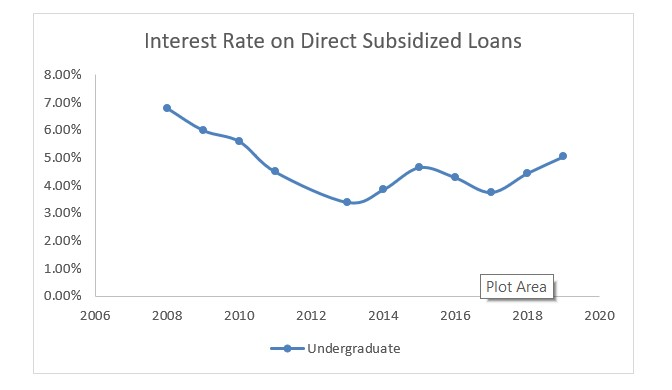 Tracks the changes in the interest rate for the last decade